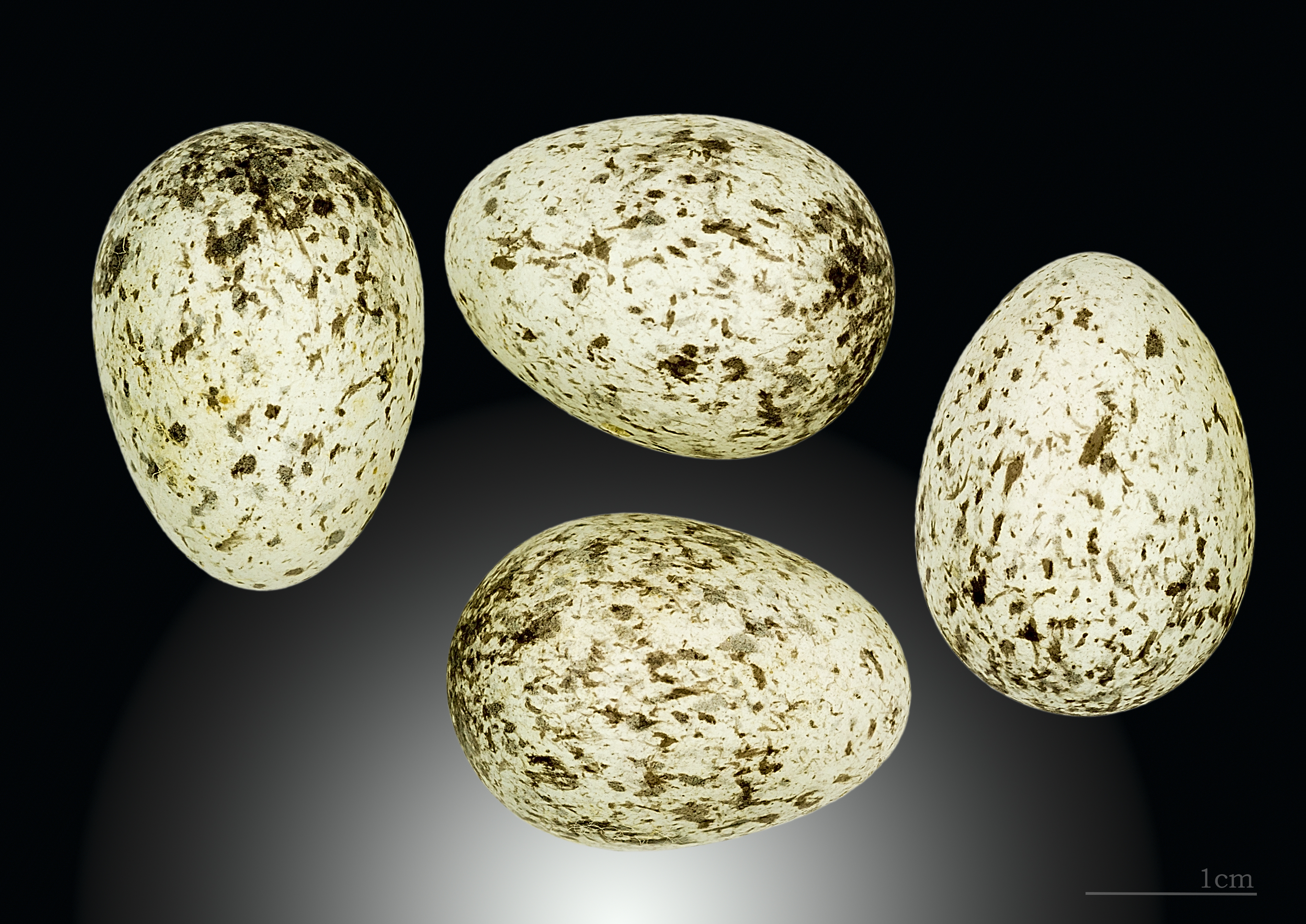 Egg of Italian Sparrow. Collection of Jacques Perrin de Brichambaut.